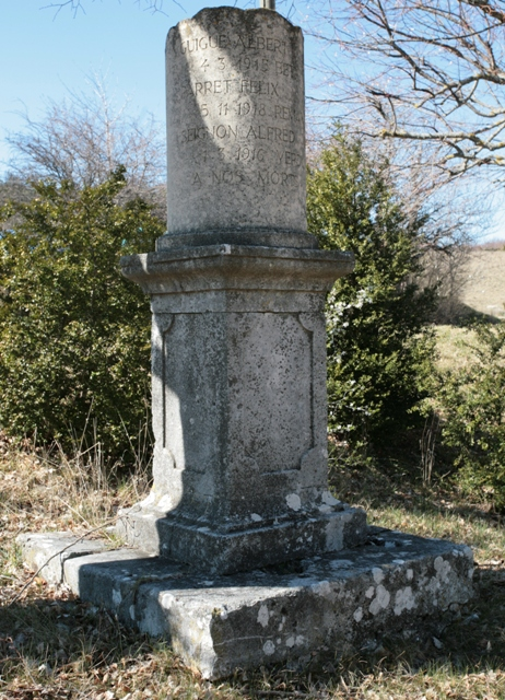 World War 1&2 death monument in the village of Largarde d'Apt, Vaucluse, France